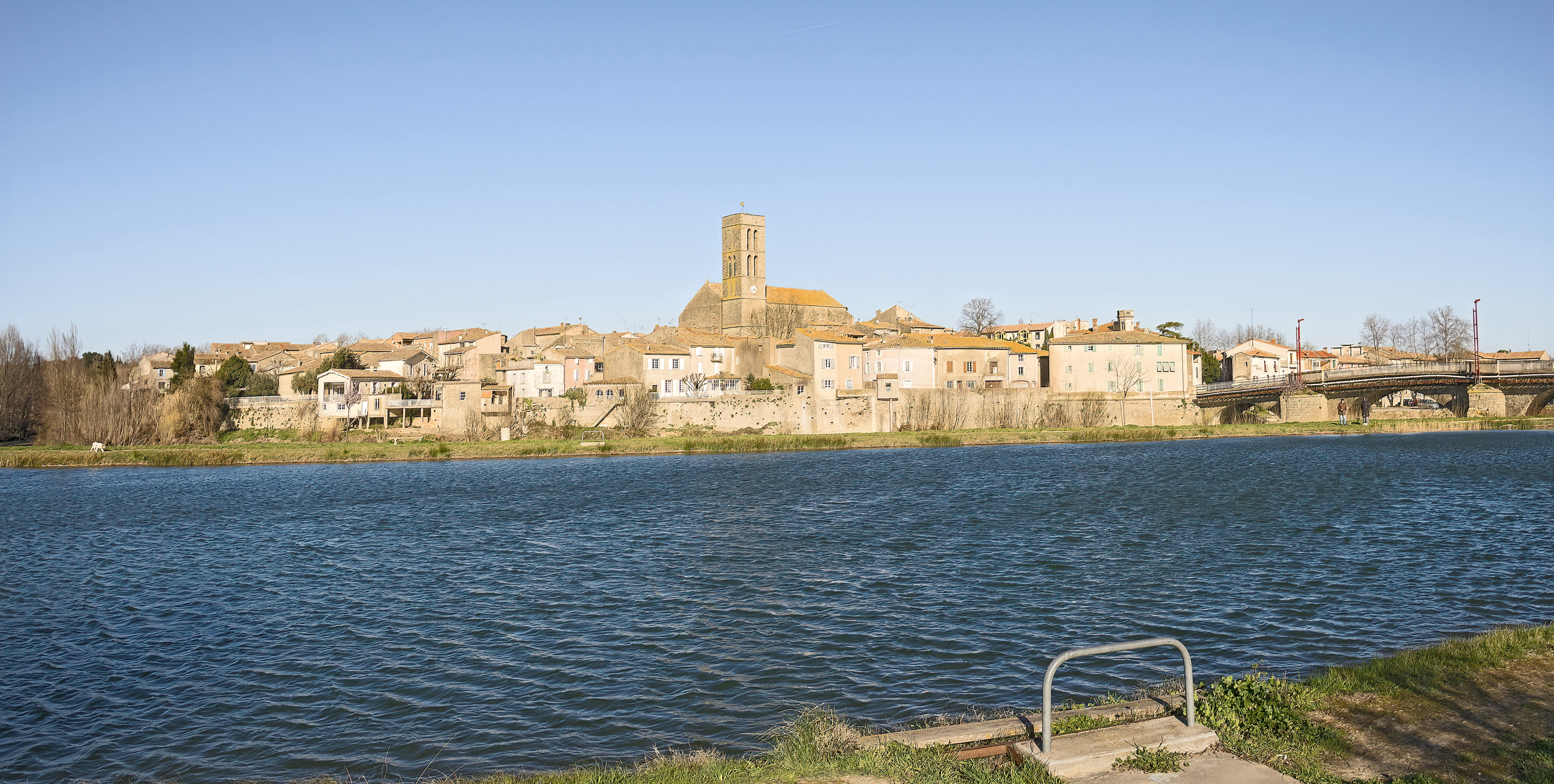 Trèbes, Aude France. Old town view of the lake.